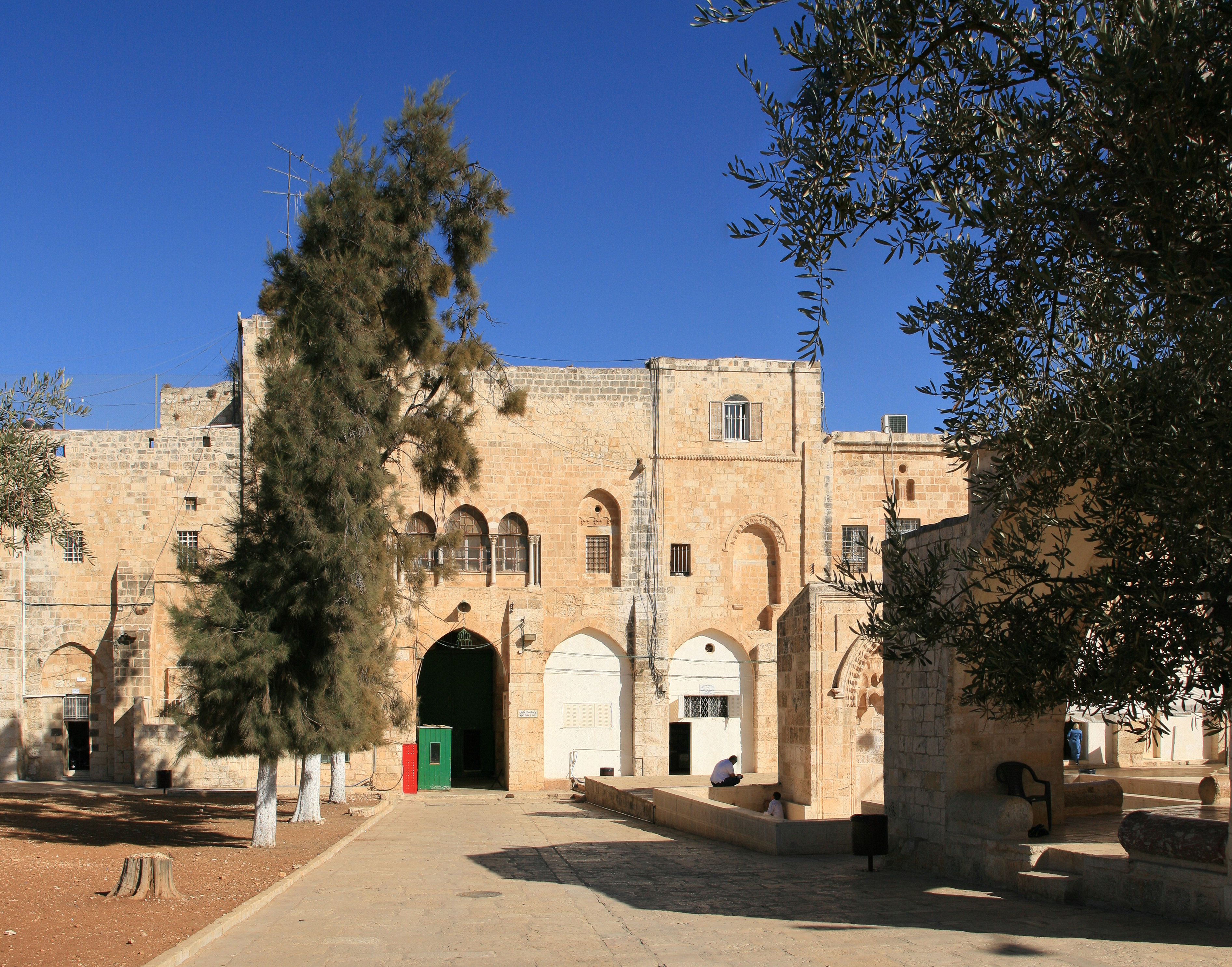 King Faisal's Gate, Temple Mount, Jerusalem, Israel